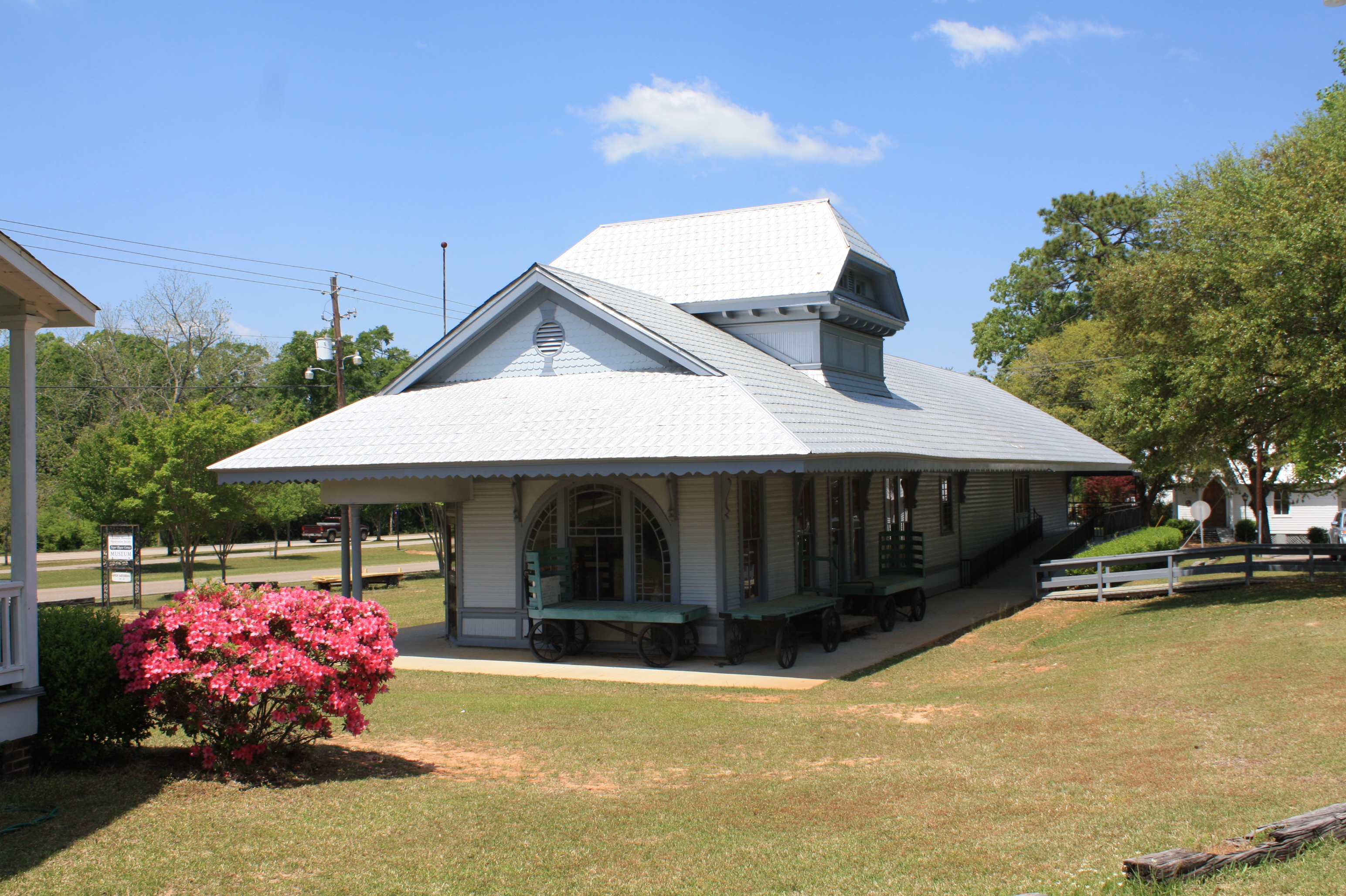 Restored Mobile and Ohio Railroad Depot in Citronelle, Alabama, United States. It now serves as a museum. Part of the Citronelle Railroad Historic District (on the National Register of Historic Places), it was built in 1903.